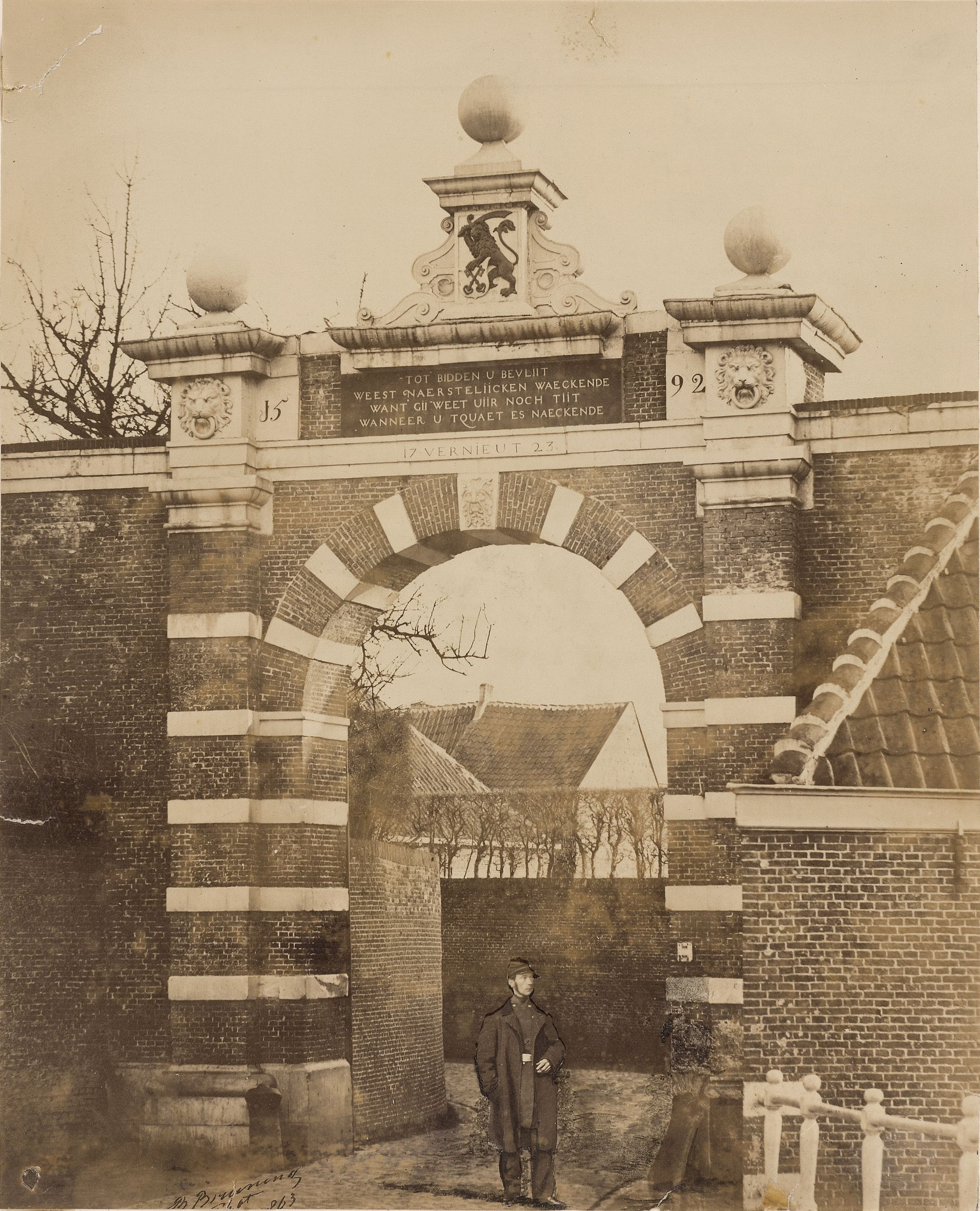 Photograph of the Leiden Witte Poort (buitenpoort) city gate by Bernard Bruining.